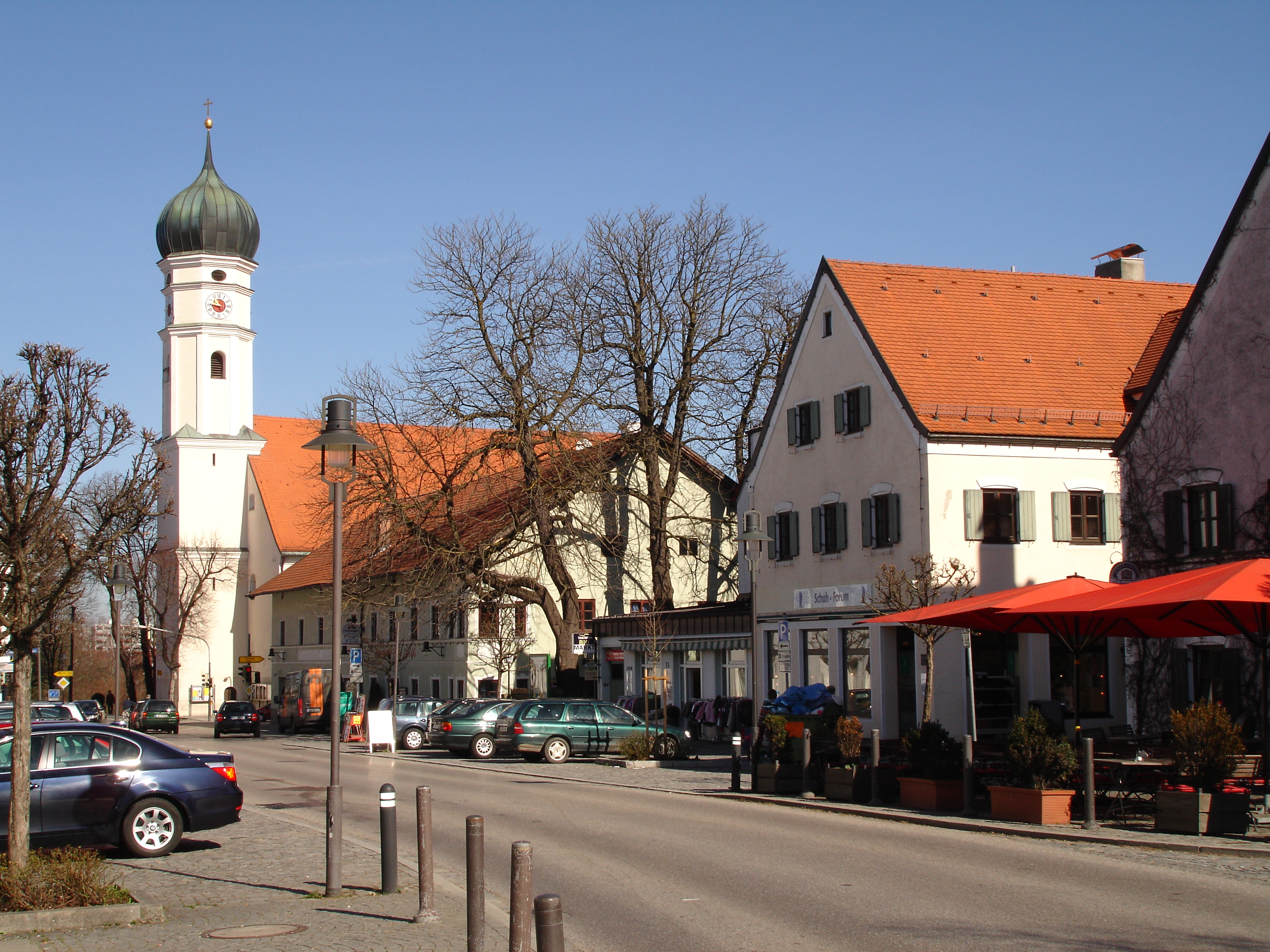 Markt Schwaben, Ebersberger Straße facing north with St Margret's Parish Church and "Post" Inn in background (from l. to r.)